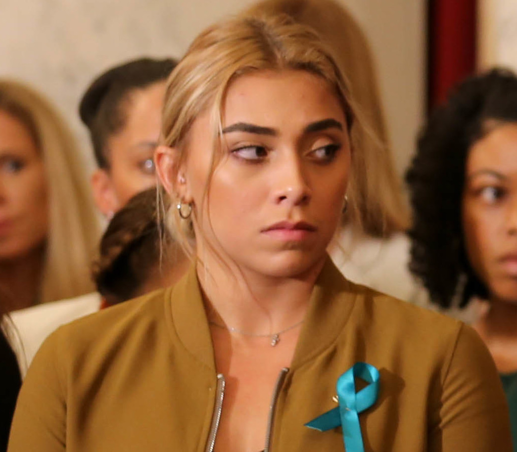 USAGA_survivors_zoomlens_072418 (13 of 14)